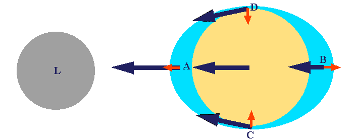 Tidal field of the Moon on earth, as the vector difference between the actual gravitational field at each point, and the value of the gravitational field as at the centre of Earth.